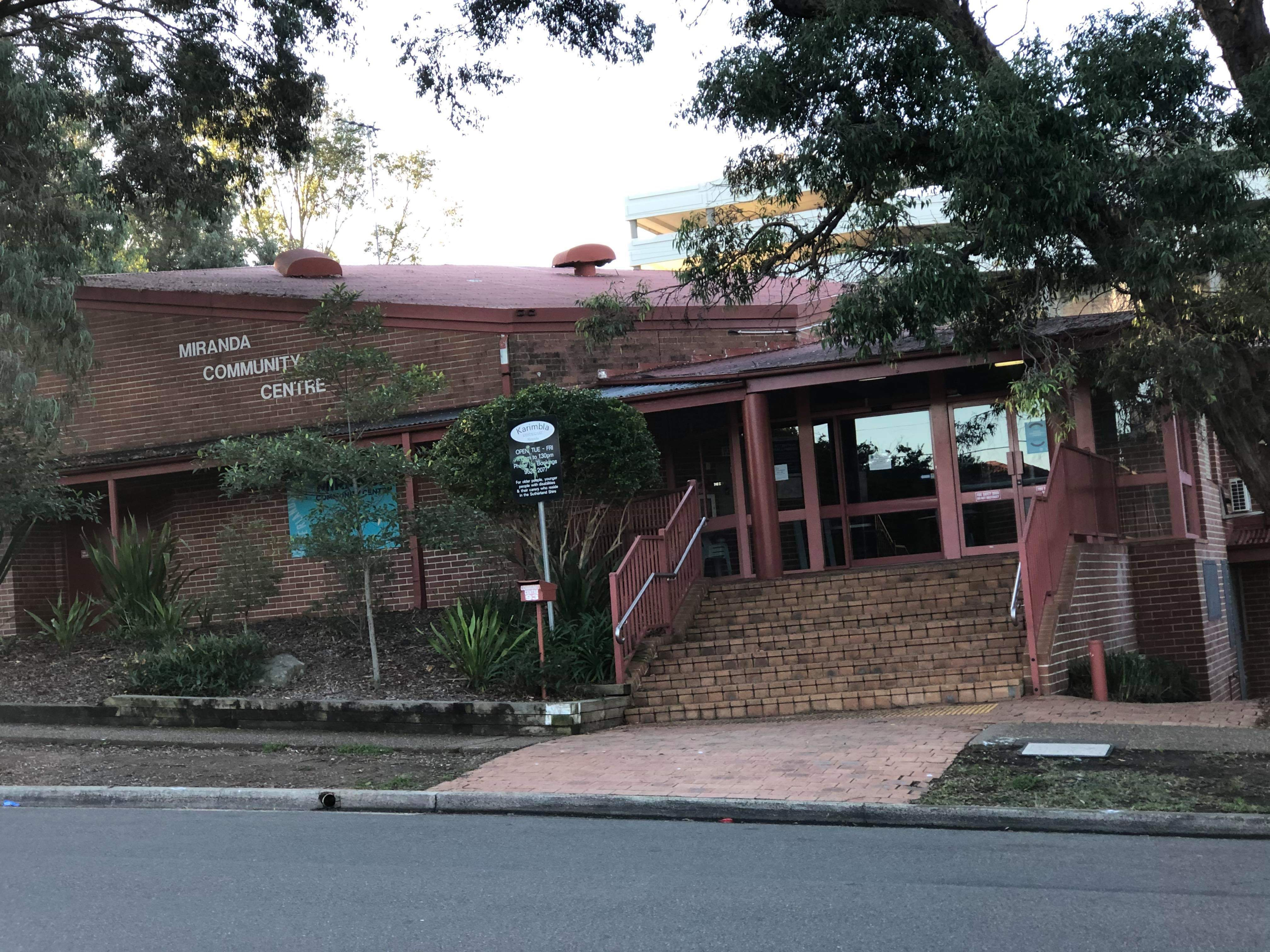 Front view of Miranda Community Centre from across the road